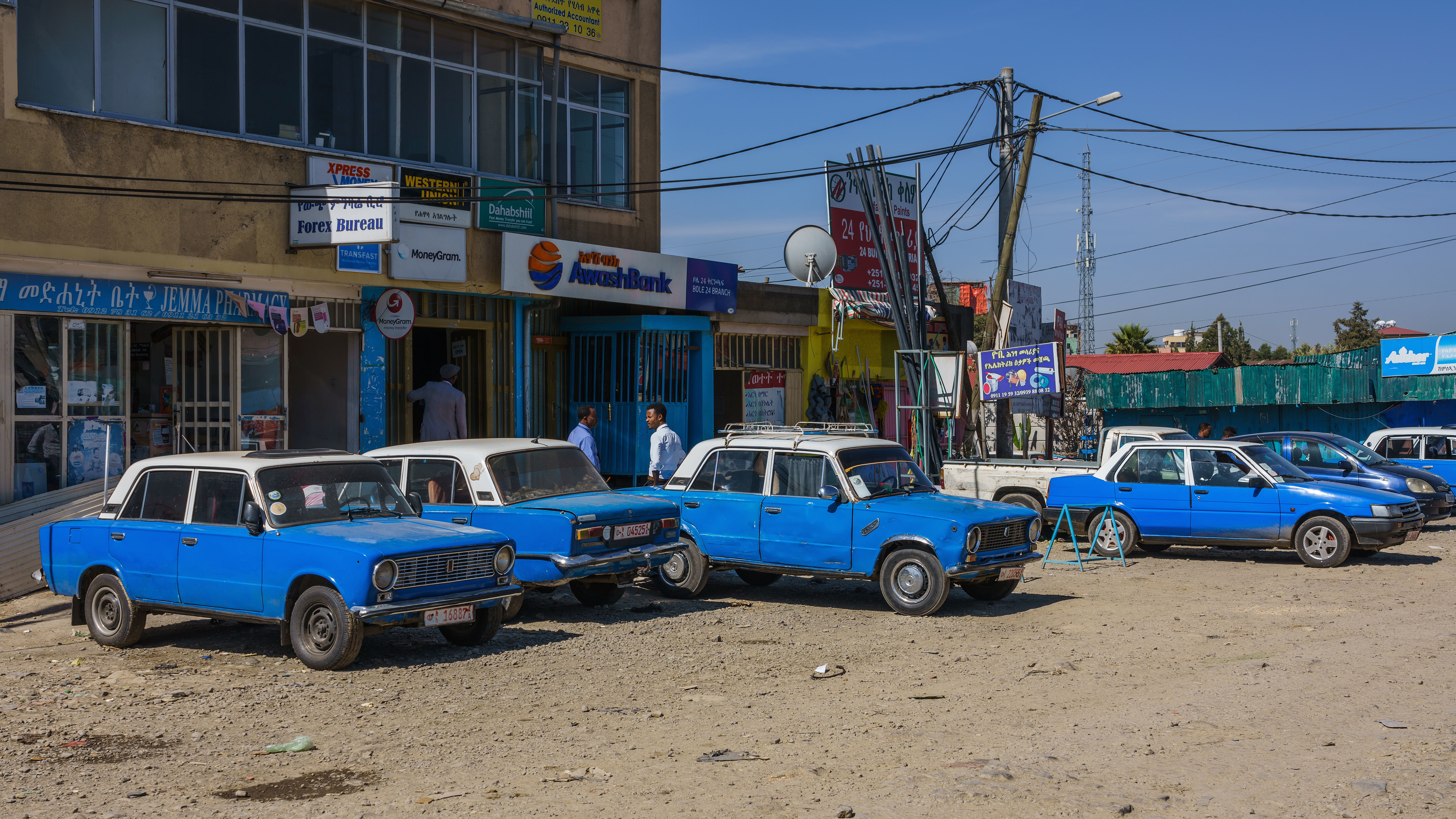 Taxis in Addis Ababa, Ethiopia